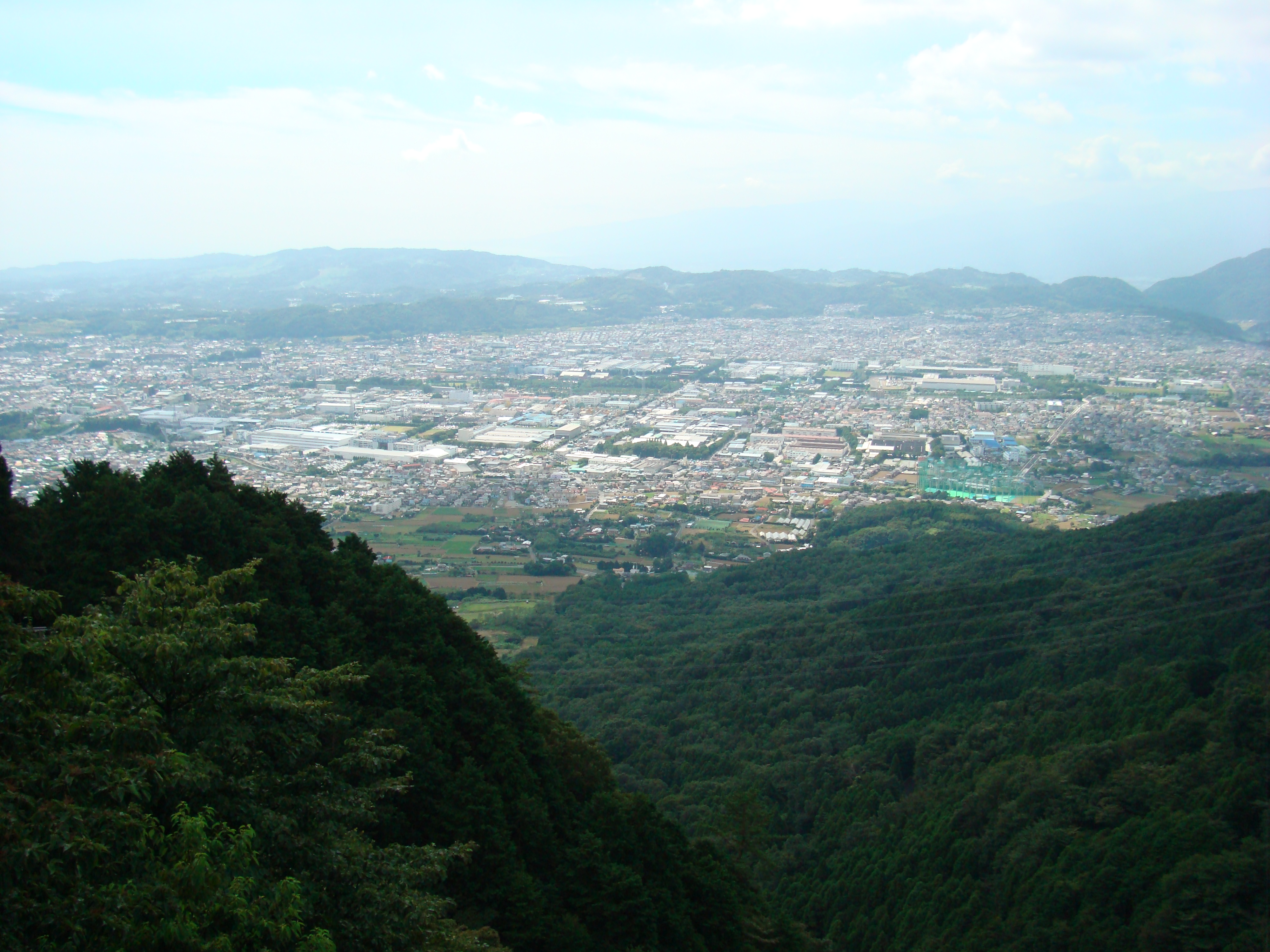 Hadano city seen from Yabitsu pass